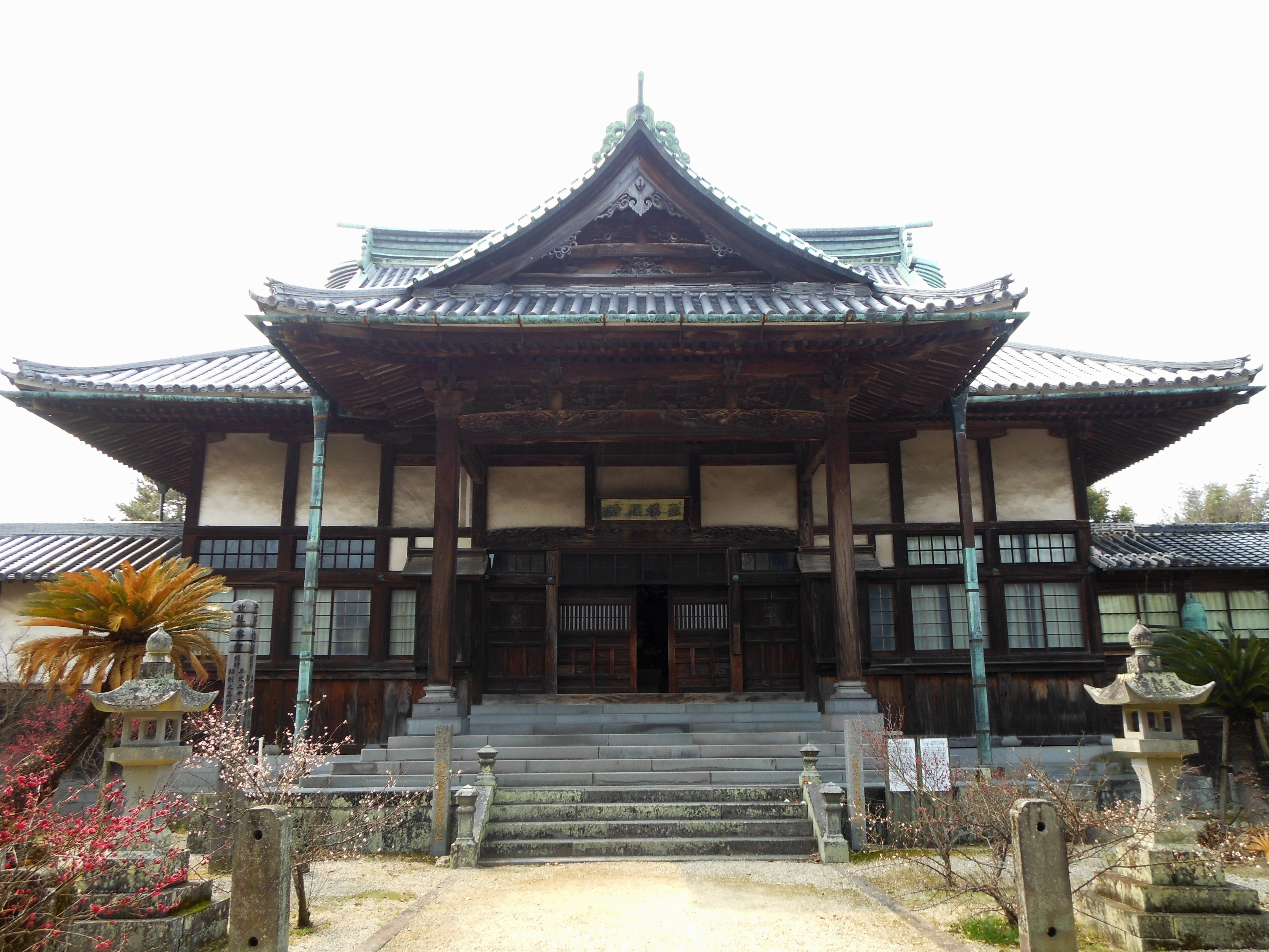 A main hall of Kōden-ji Temple, in Saga City.